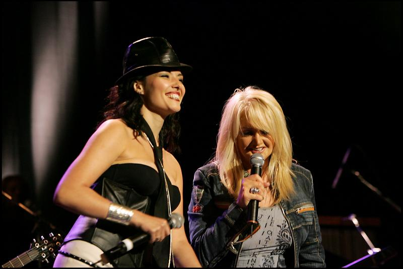 Concert Kareen Antonn at Cigale, Paris, featuring Bonnie Tyler